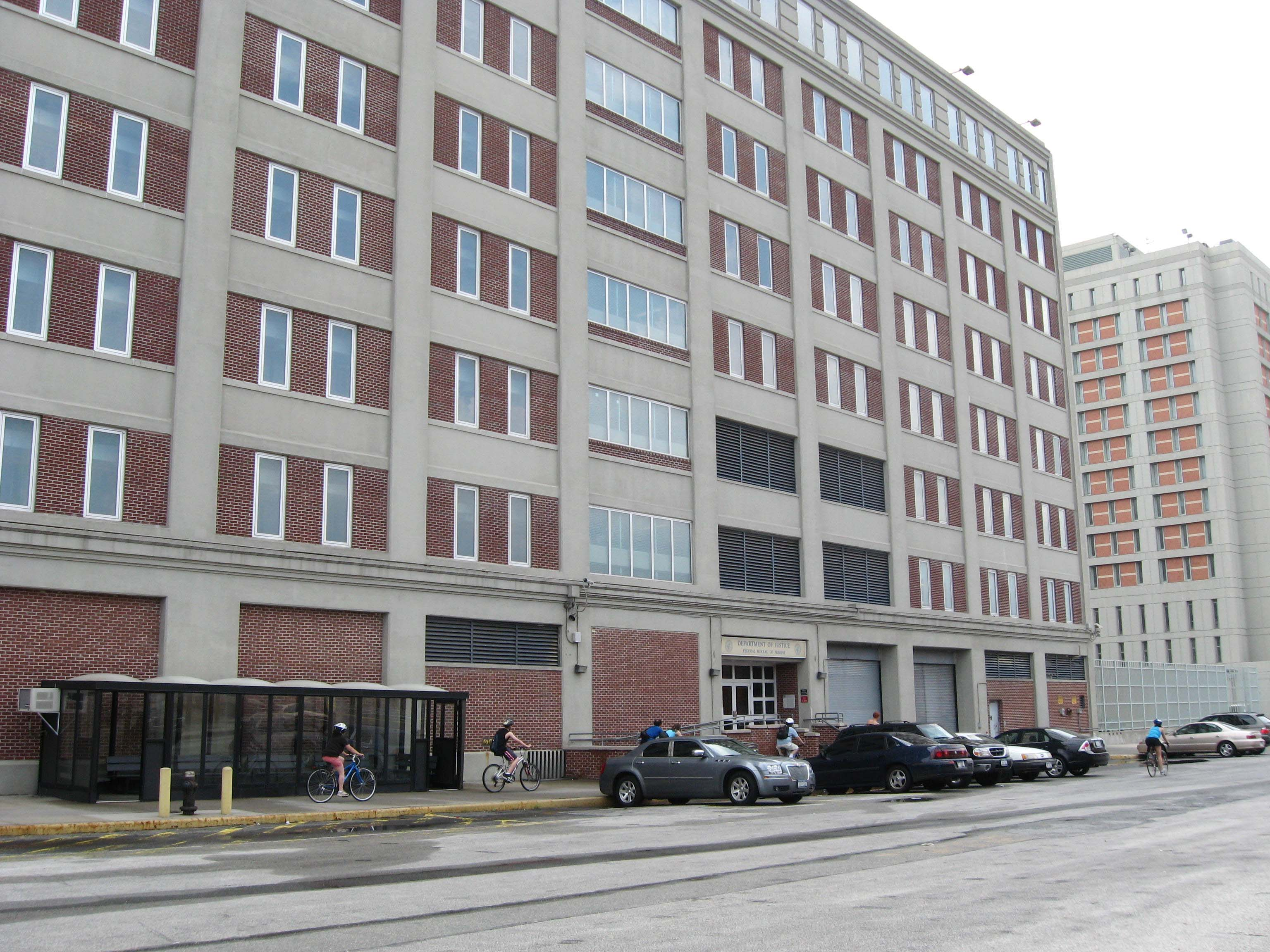 Looking west at Metropolitan Detention Center, Brooklyn, on a cloudy early afternoon.